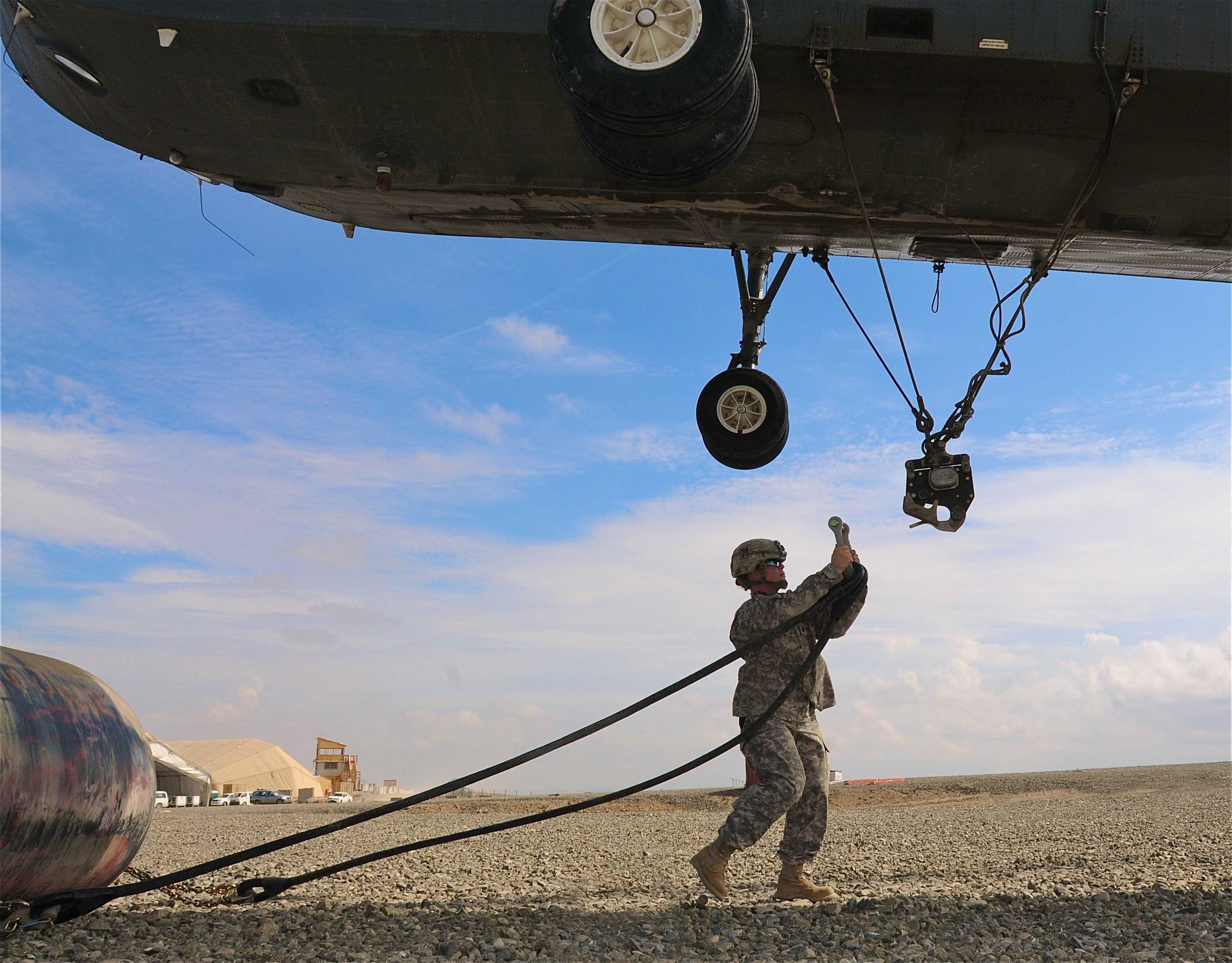 U.S. Army Sgt. Patricia A. O Connell, a noncommissioned officer in charge of the helicopter landing zone assigned to Company A, 626th Brigade Support Battalion, 3rd Brigade, 101st Airborne Division, prepares to attach a 4,000-pound collapsible fuel bladder to the bottom of a helicopter during an aerial resupply mission at Forward Operating Base Sharana, Paktika province, Afghanistan, on Aug. 7, 2010.